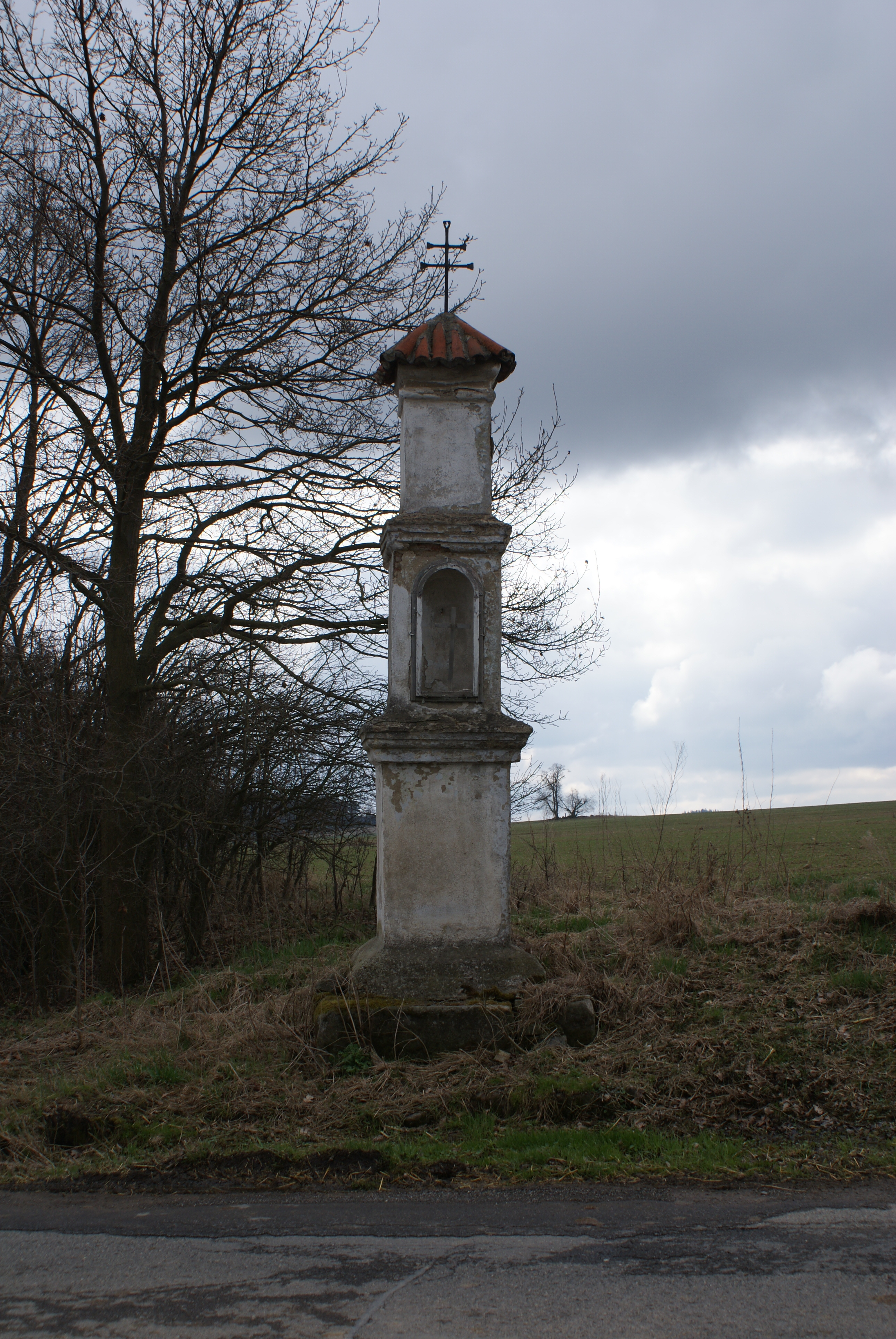 Starosedlský Hrádek, a village in Příbram District, Czech Republic, a column shrine.